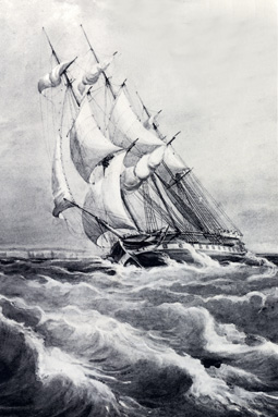 prob. a b&w photo of the painting HMS Rattlesnake off Sydney Heads by Oswald Brierly, the ship's artist.